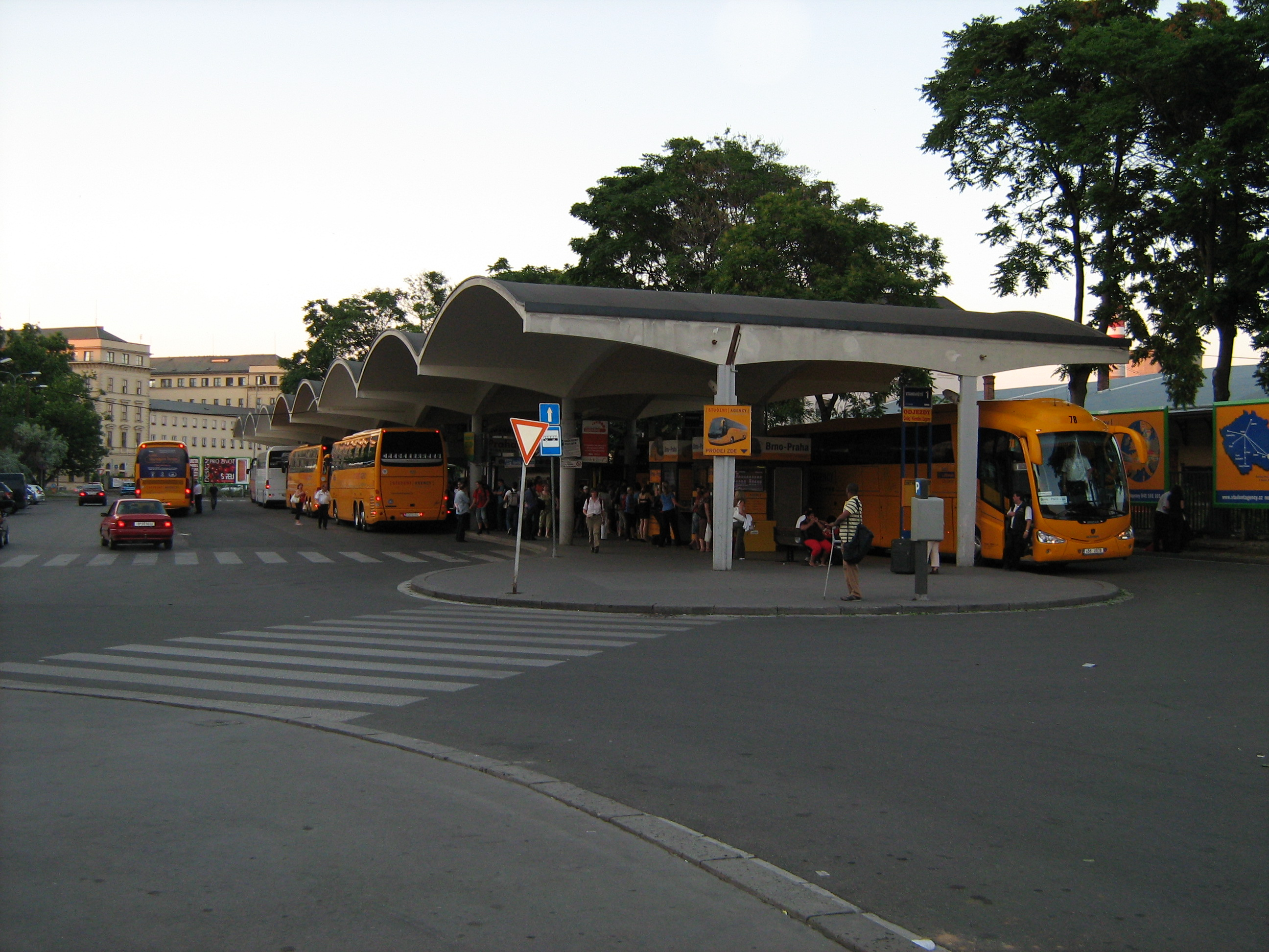 Long-Distance bus terminal in Brno, Czech Republic